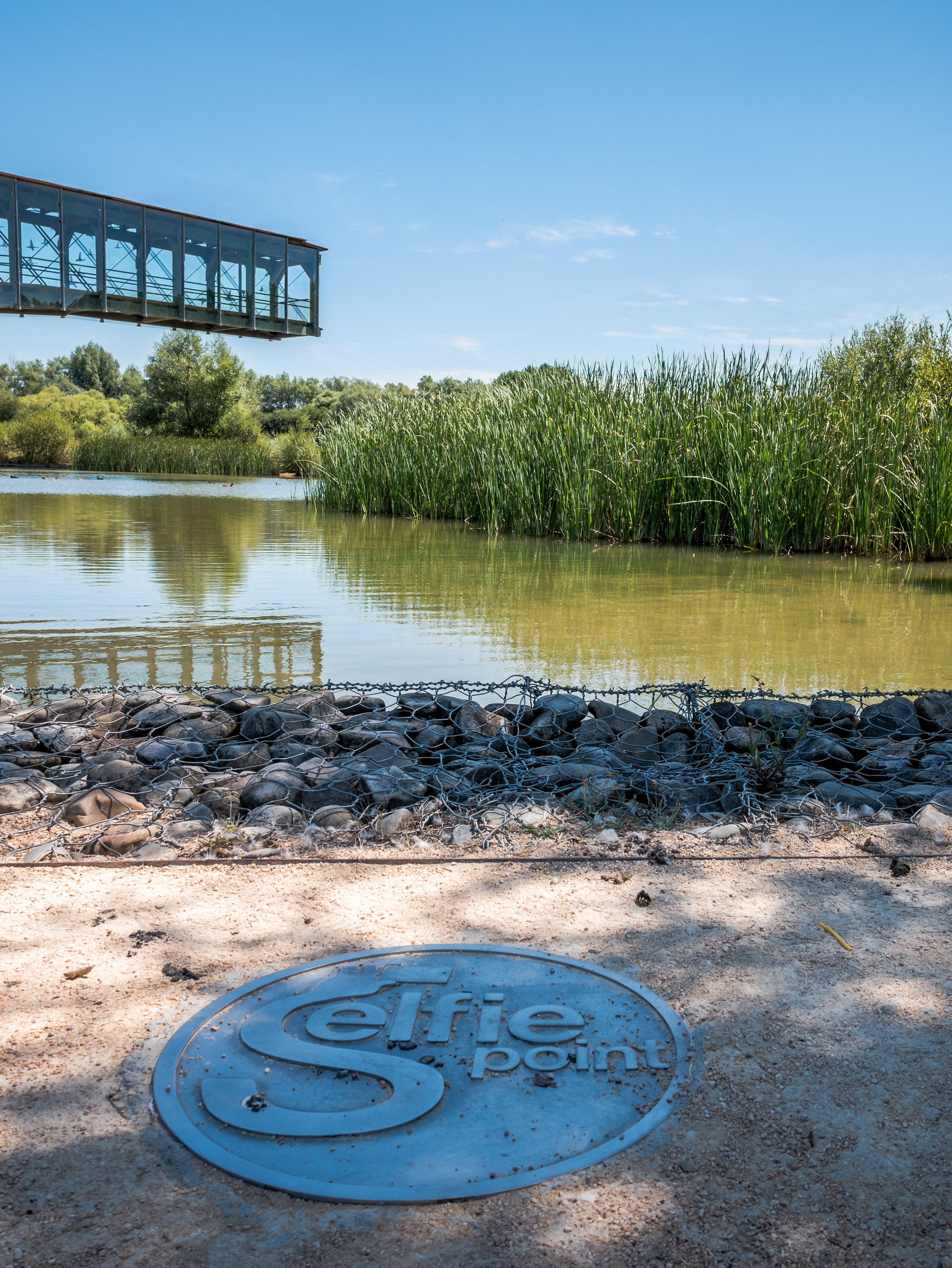 Ataria Interpretation Centre of the Salburua wetlands and viewpoint; selfie point. Vitoria-Gasteiz, Basque Country, Spain